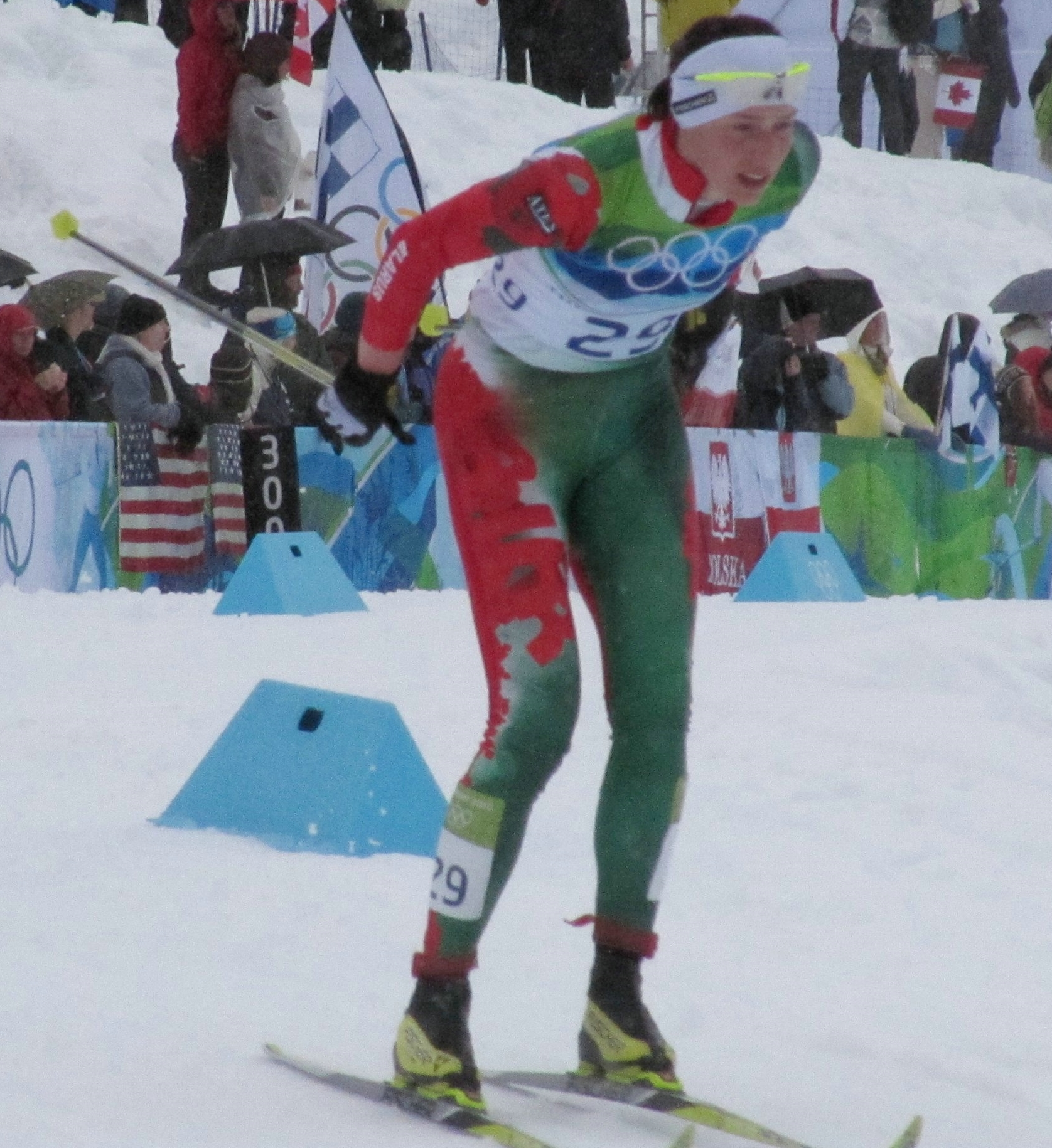 Alena Sannikova at the Ladies' 30 km mass start cross-country skiing classic on day 16 of the 2010 Vancouver Winter Olympics at Whistler Olympic Park Cross-Country Stadium, British Columbia, Canada.